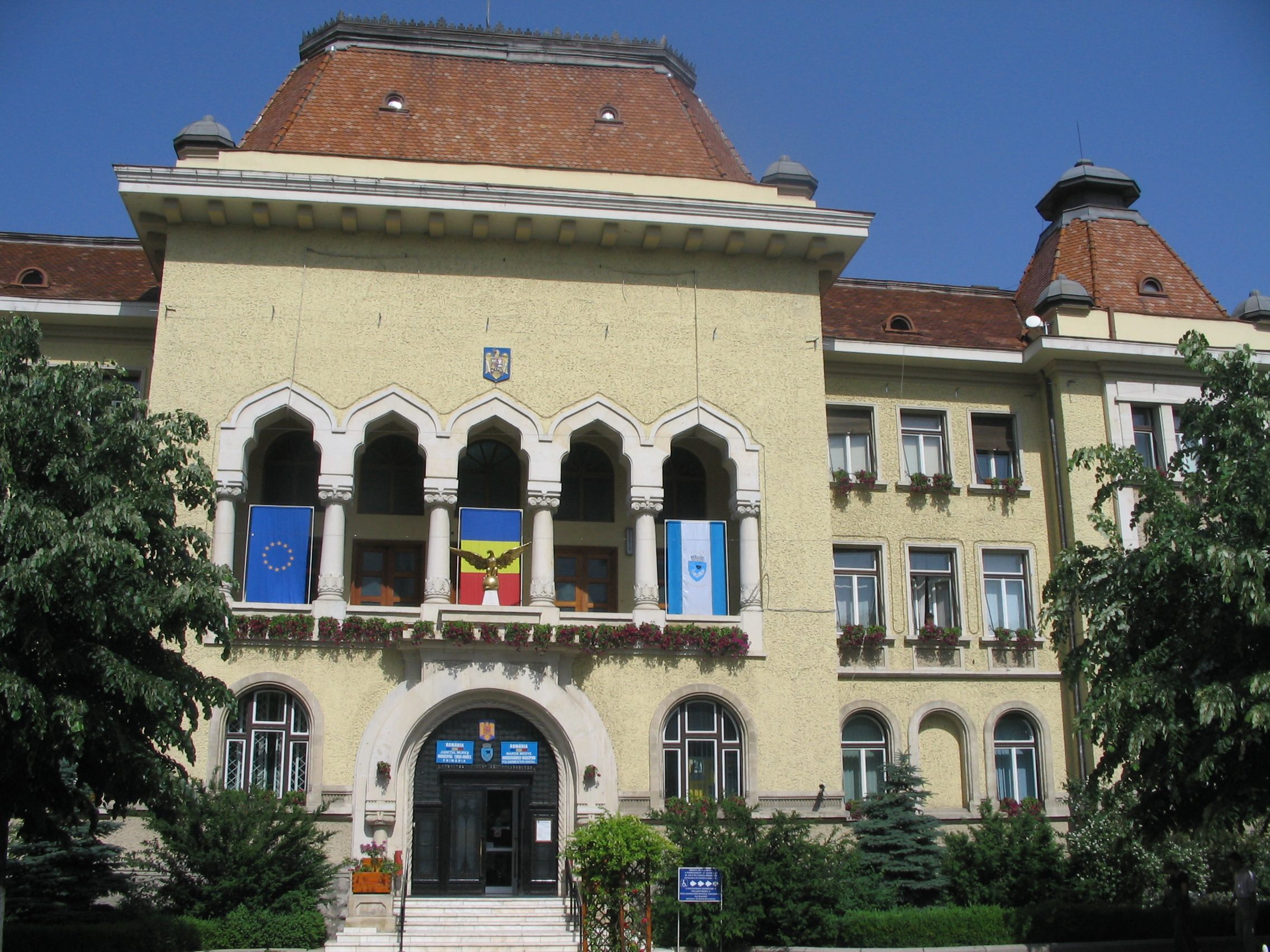 The Town Hall of Târgu Mureş